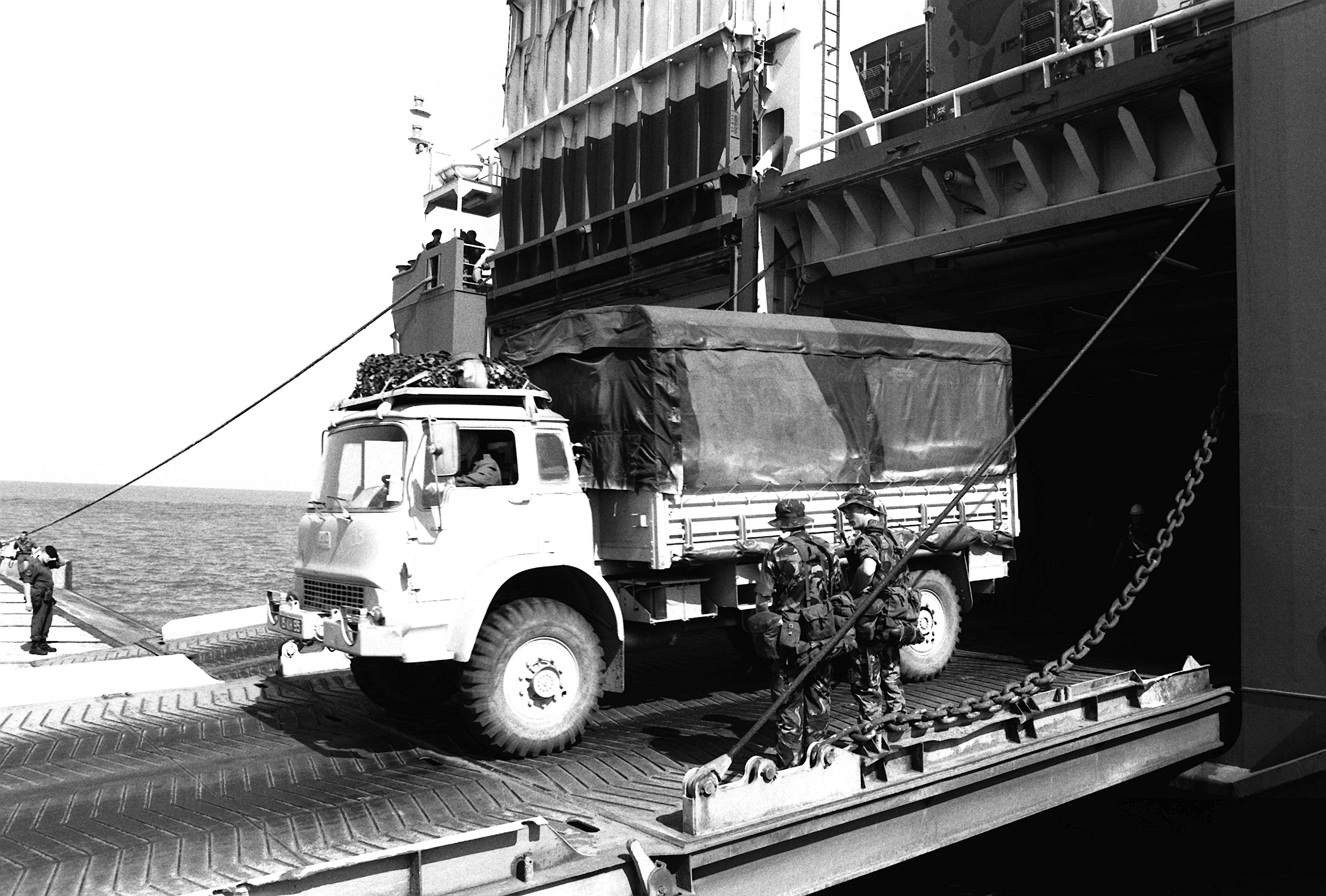 A Bedford MK 4×4 truck assigned to the British army's 7th Armour Brigade is driven down the stern ramp of the Danish cargo ship Dana Cimbria upon its arrival at the King Abdul Aziz Naval Port during Operation Desert Shield.